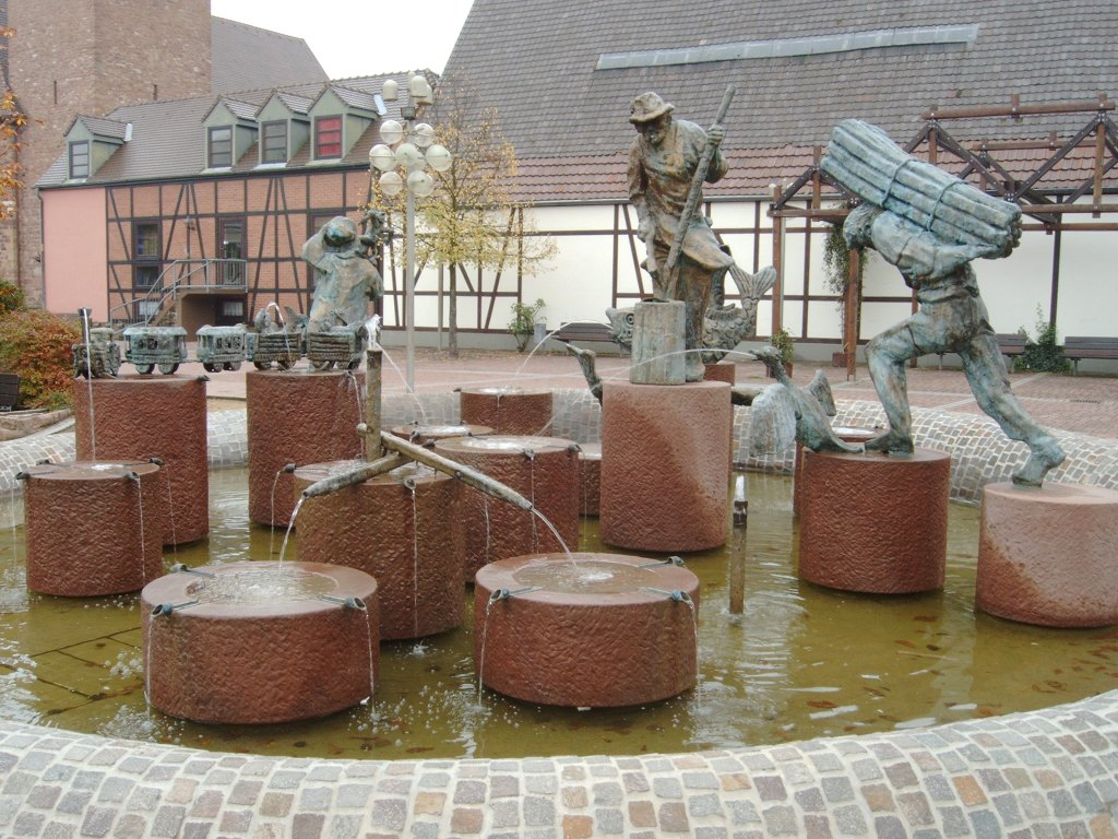 Fontain in Otterstadt